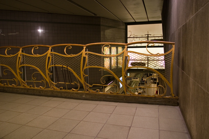 Original Art Nouveau railing in Horta station, Brussels premetro